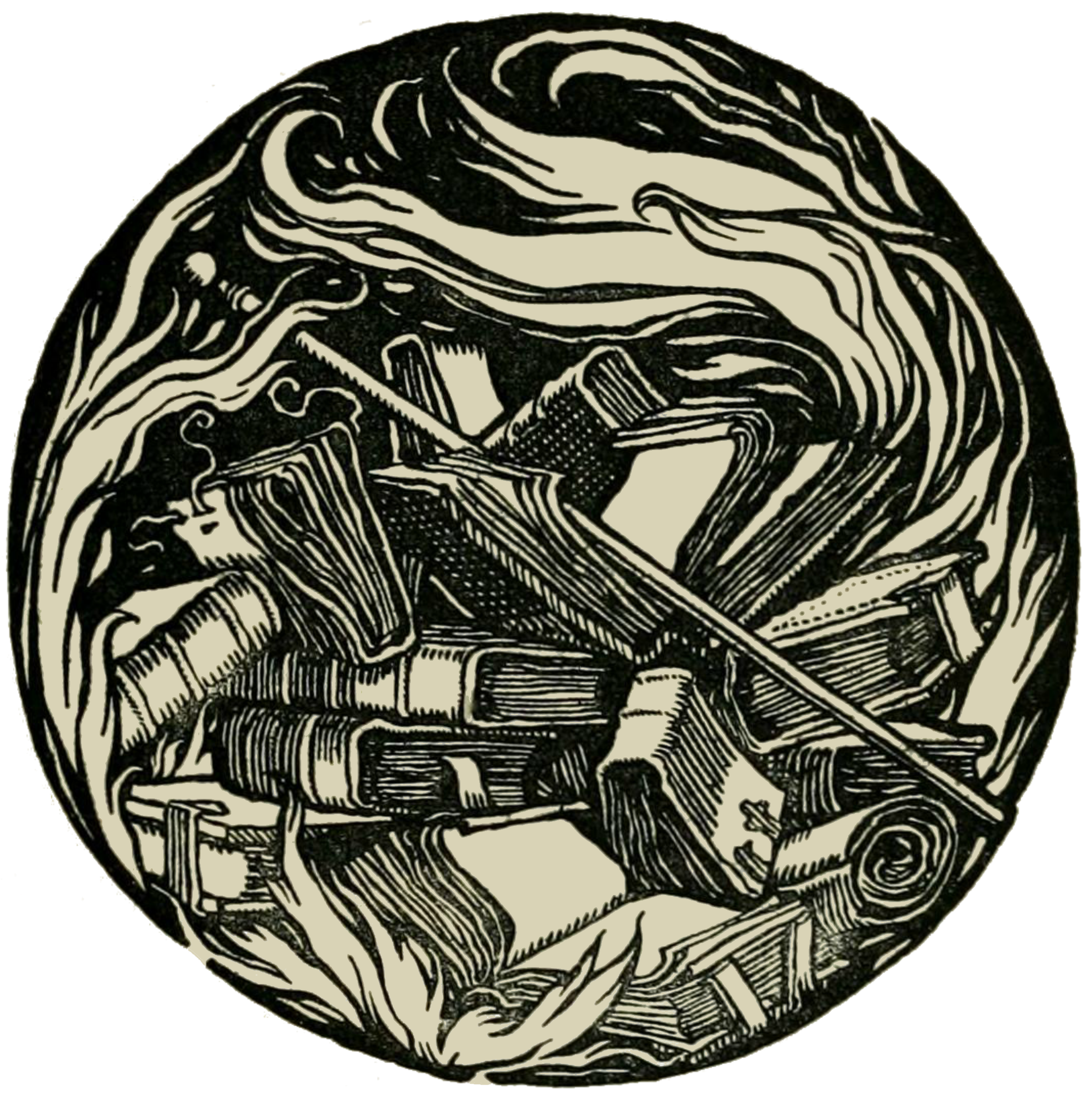 No caption. A full-page illustration of Roger Bacon's library in flames: "What hath all my knowledge of natures secrets gained me? Onely this, the losse of a better knowledge, the losse of divine studies, which makes the immortall part of man (his soule) blessed. I have found that my knowledge has beene a heavy burden, and has kept downe my good thoughts: but I will remove the cause, which are these bookes: which I doe purpose here before you all to burne. They all intreated him to spare the bookes, because in them there were those things that after-ages might receive great benefit by. He would not hearken unto them, but threw them all in the fire, and in that flame burnt the greatest learning in the world." (p. 94)